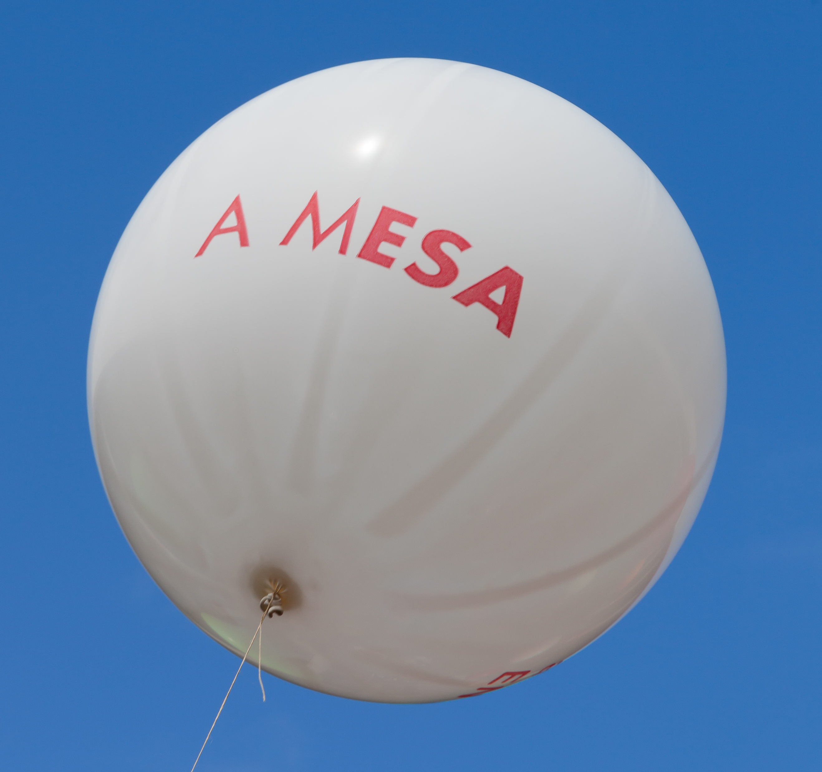 Balloon. Table for Linguistic Normalisation of the Galician language. Correlingua 2013, Silleda, Galicia (Spain)